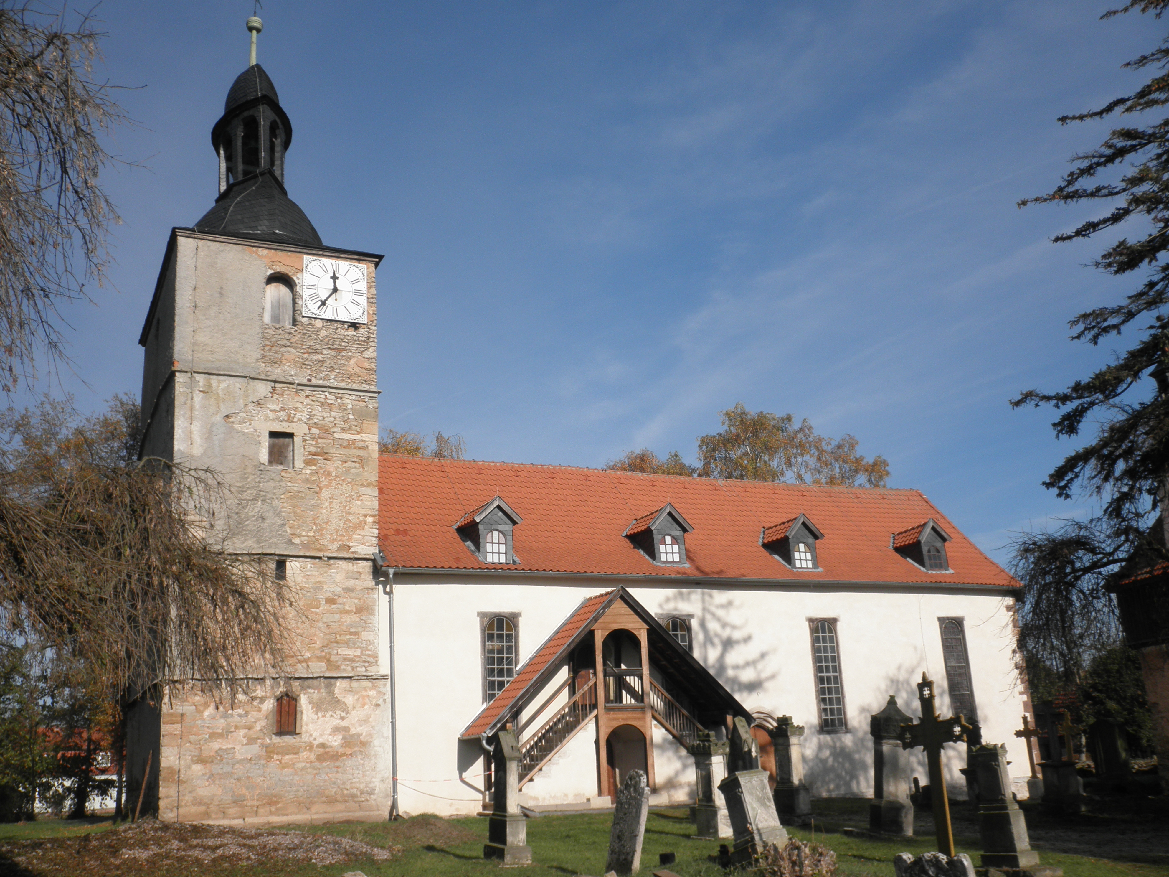 Church in Abtsbessingen in Thuringia